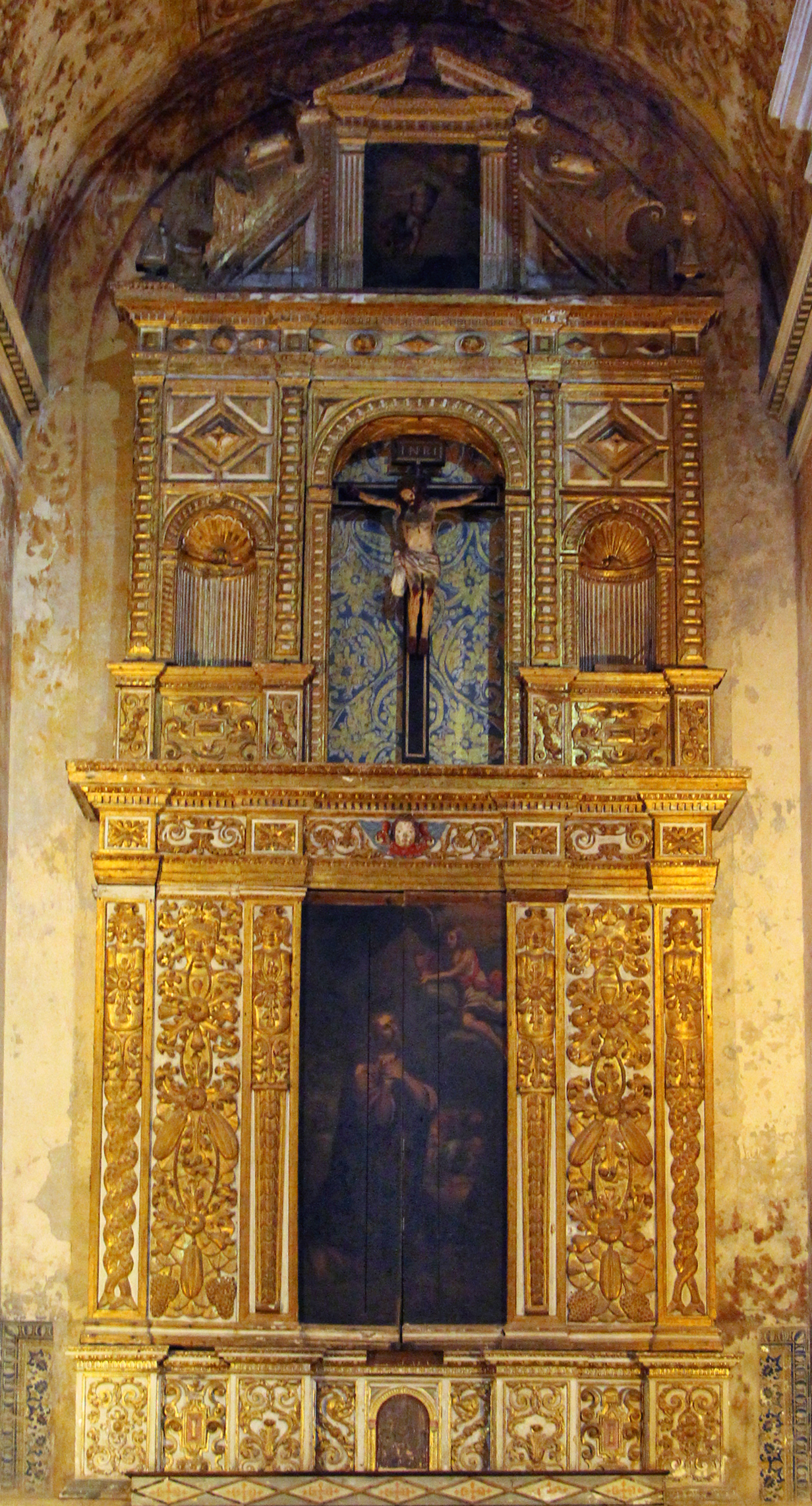 Cathedral-Basilica of Salvador